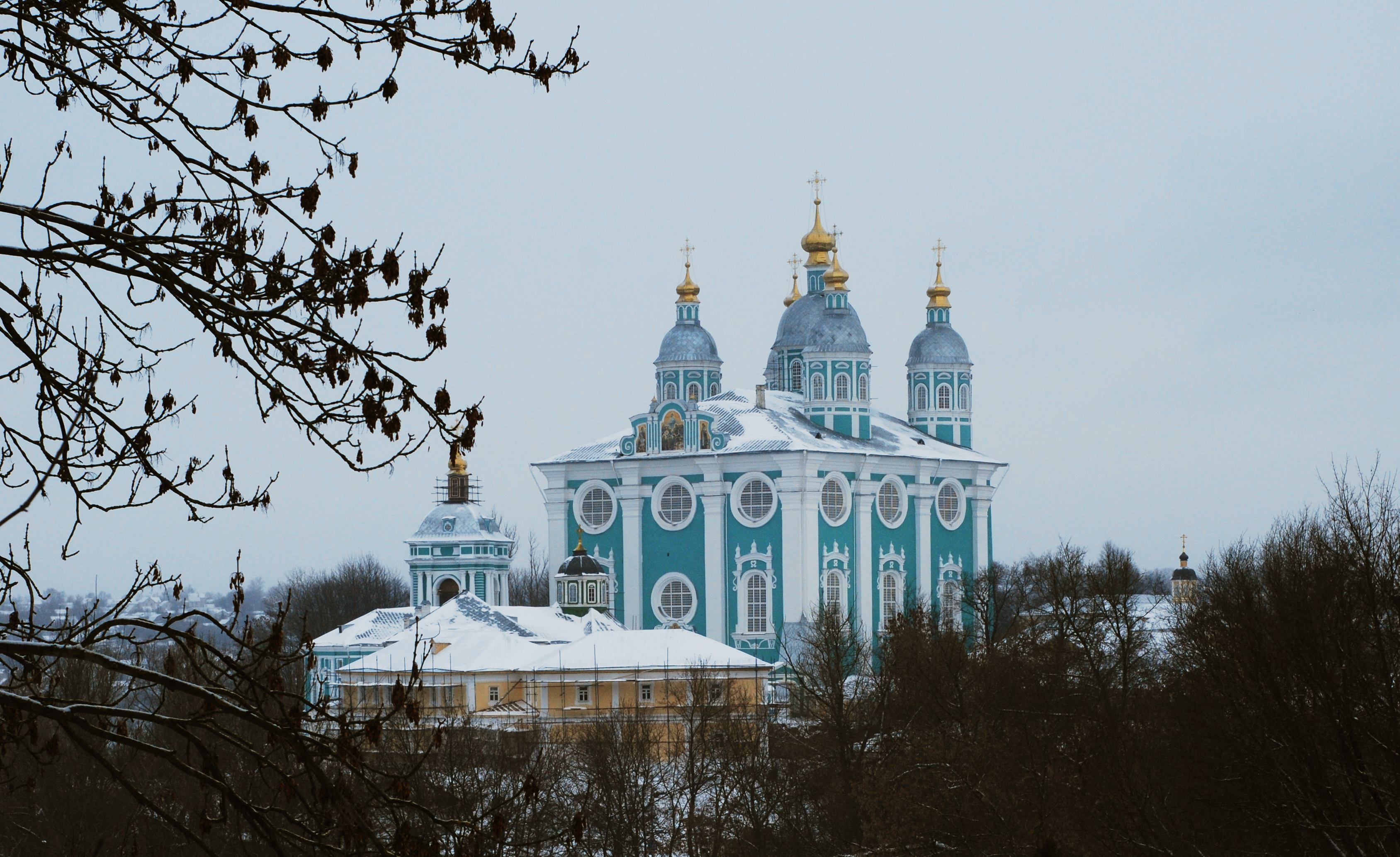 Uspensky cathedral, Smolensk